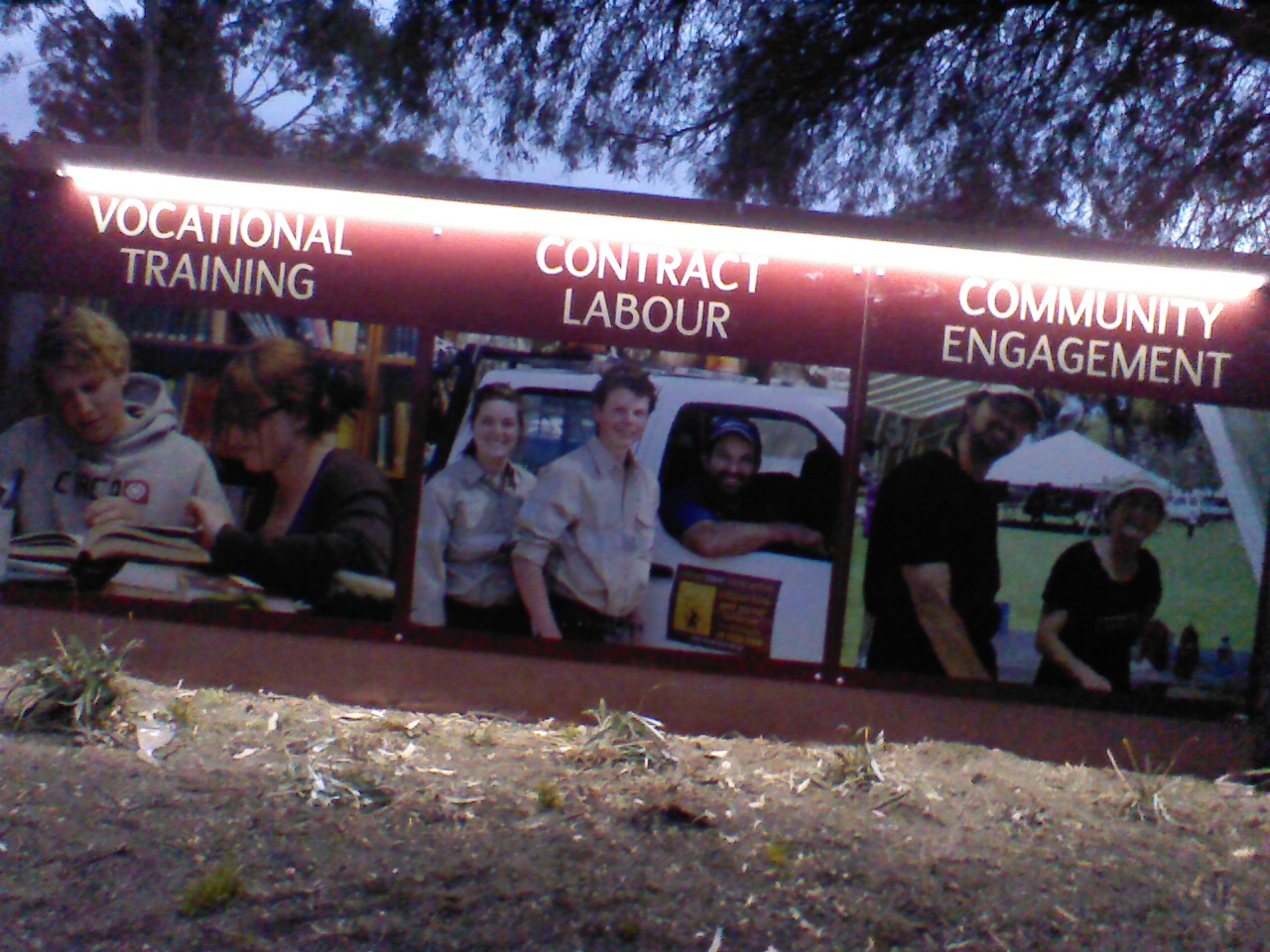 A picture of the sign out the front of our Swan Hill Campus